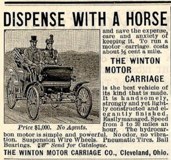 WintonMotor Carriage Company: the first automobile advertisement- Scientific American February/March 1898